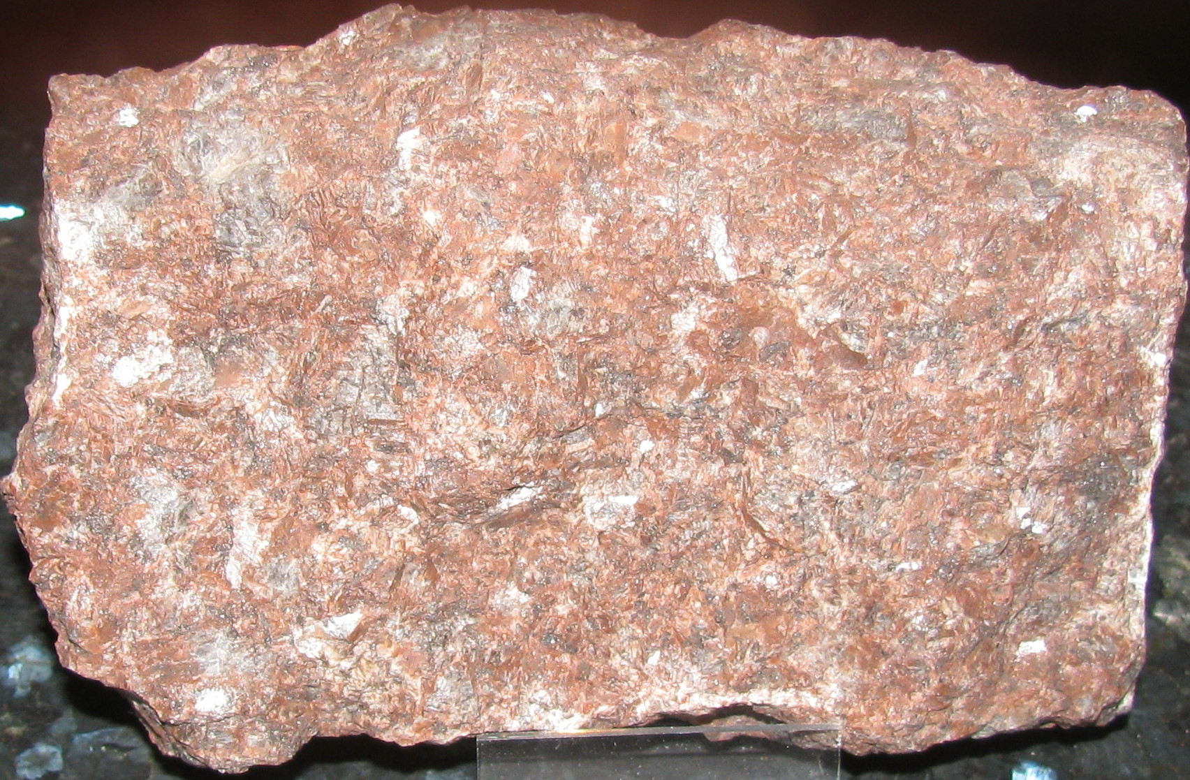 Tønsbergite, Tönsbergite, Toensbergite, Tonsbergite